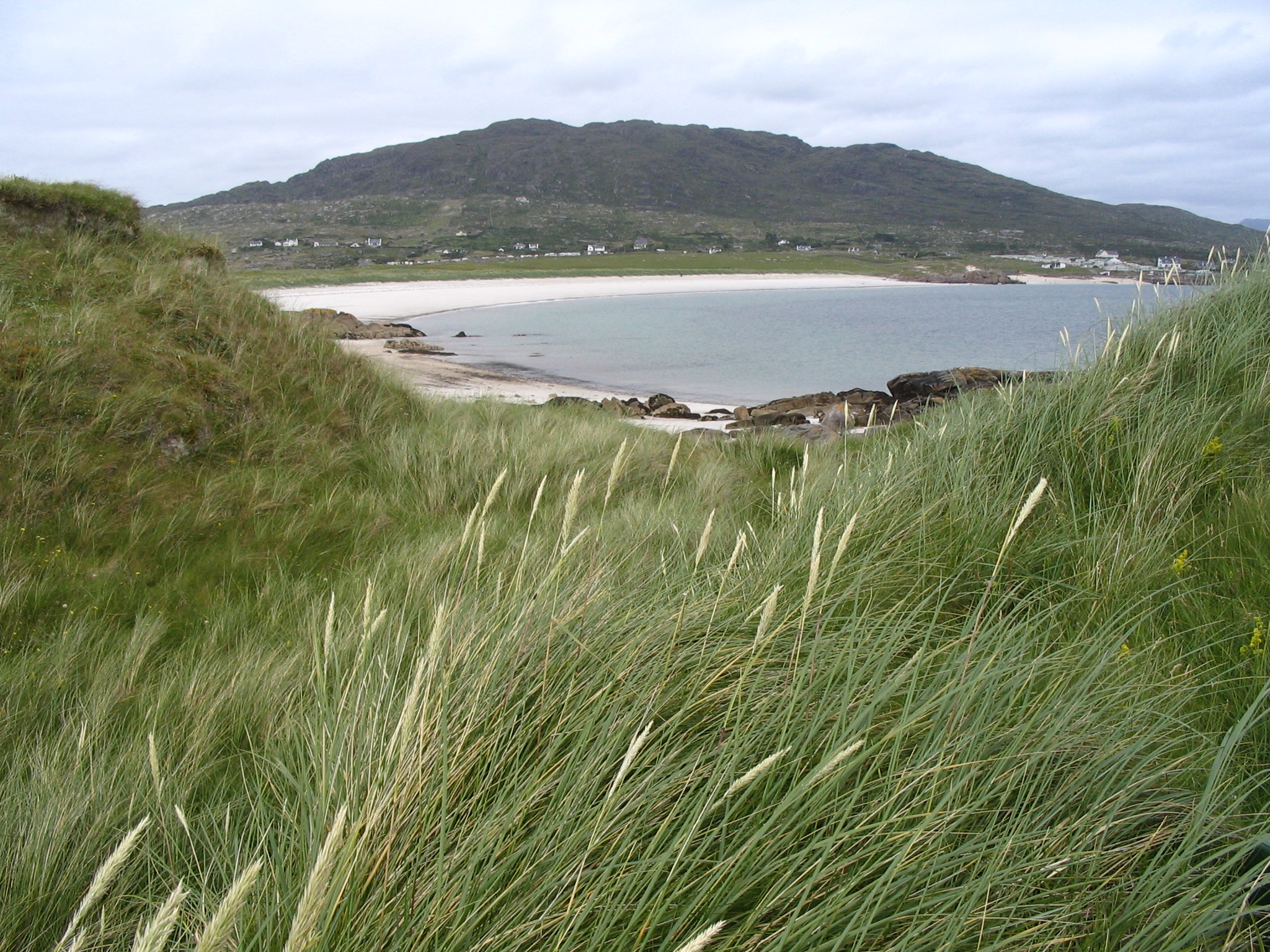 Errisbeg - Gorteen Bay - Connemara